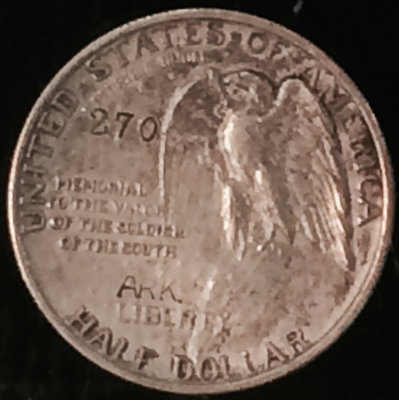 1925 Stone Mountain Memorial half dollar with countermark